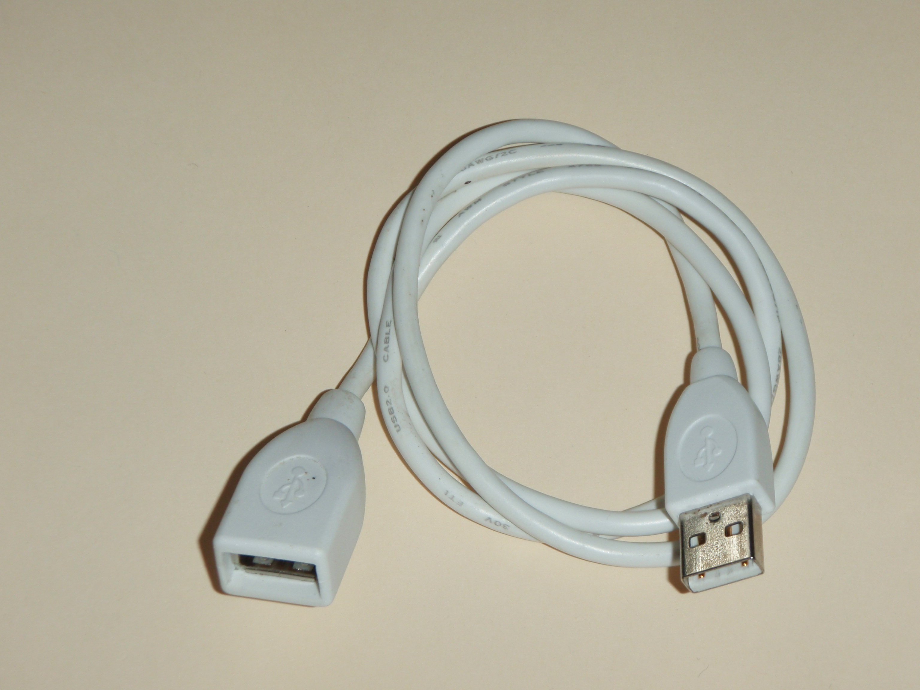 Cable used to extend a USB cable with changing the gender of the connectors. One end is female and the other is male.